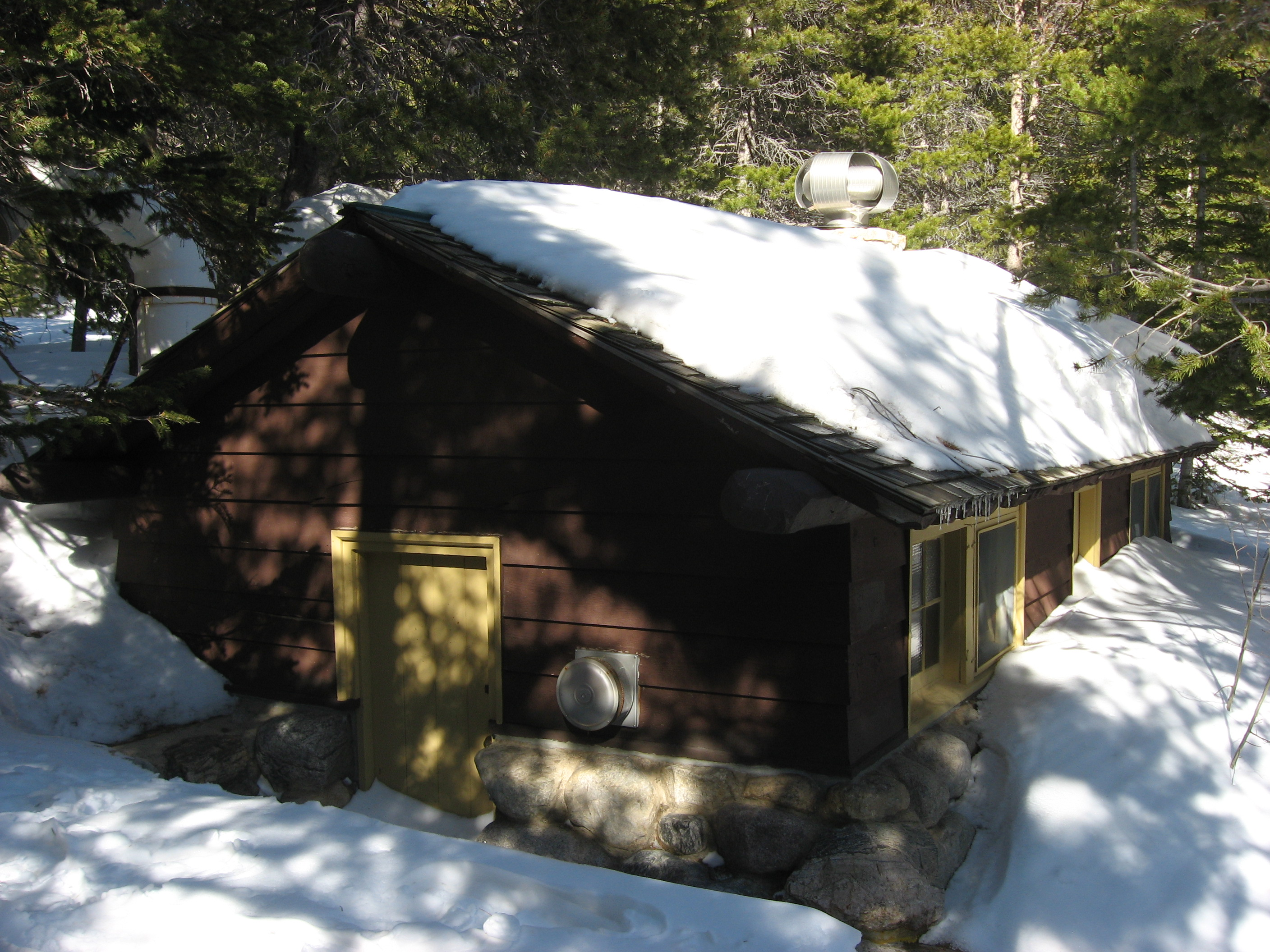 Southern and western sides of the Bear Lake Comfort Station on the eastern side of Rocky Mountain National Park in Larimer County, Colorado, United States. Built in 1940, the building is listed on the National Register of Historic Places.